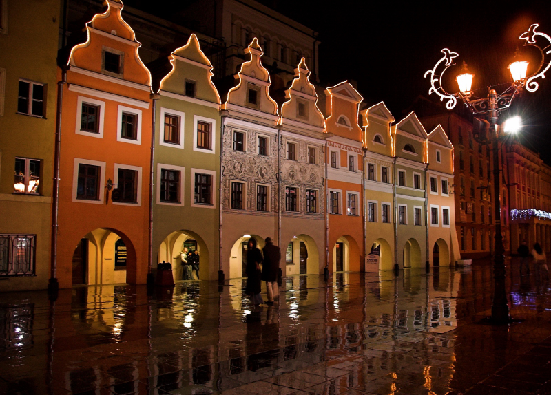 Herring stalls in the Legnica Śledziówkami market, in Legnica, a city on the Kaczawa river in Lower Silesia in south-western Poland.